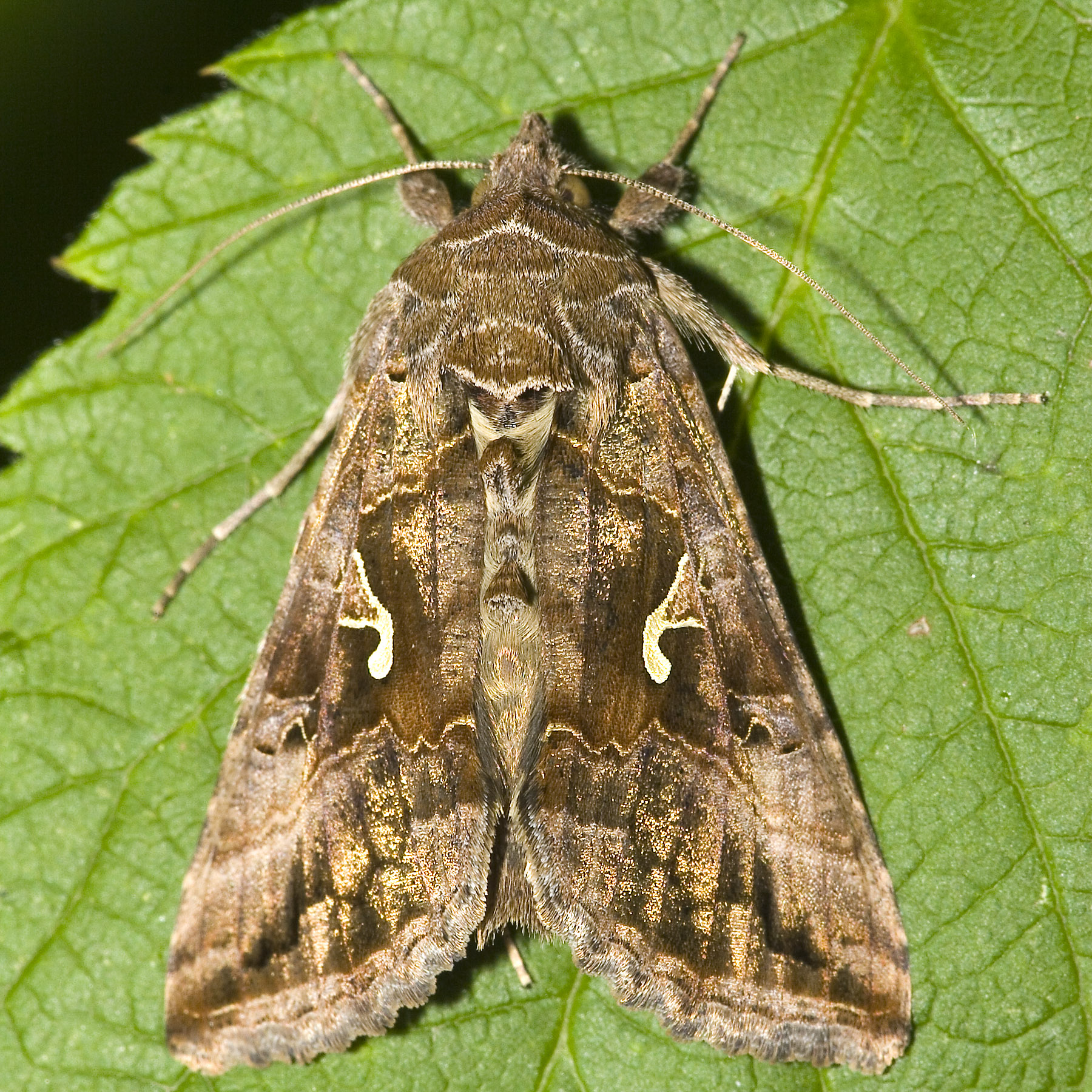 Silver Y (Autographa gamma)